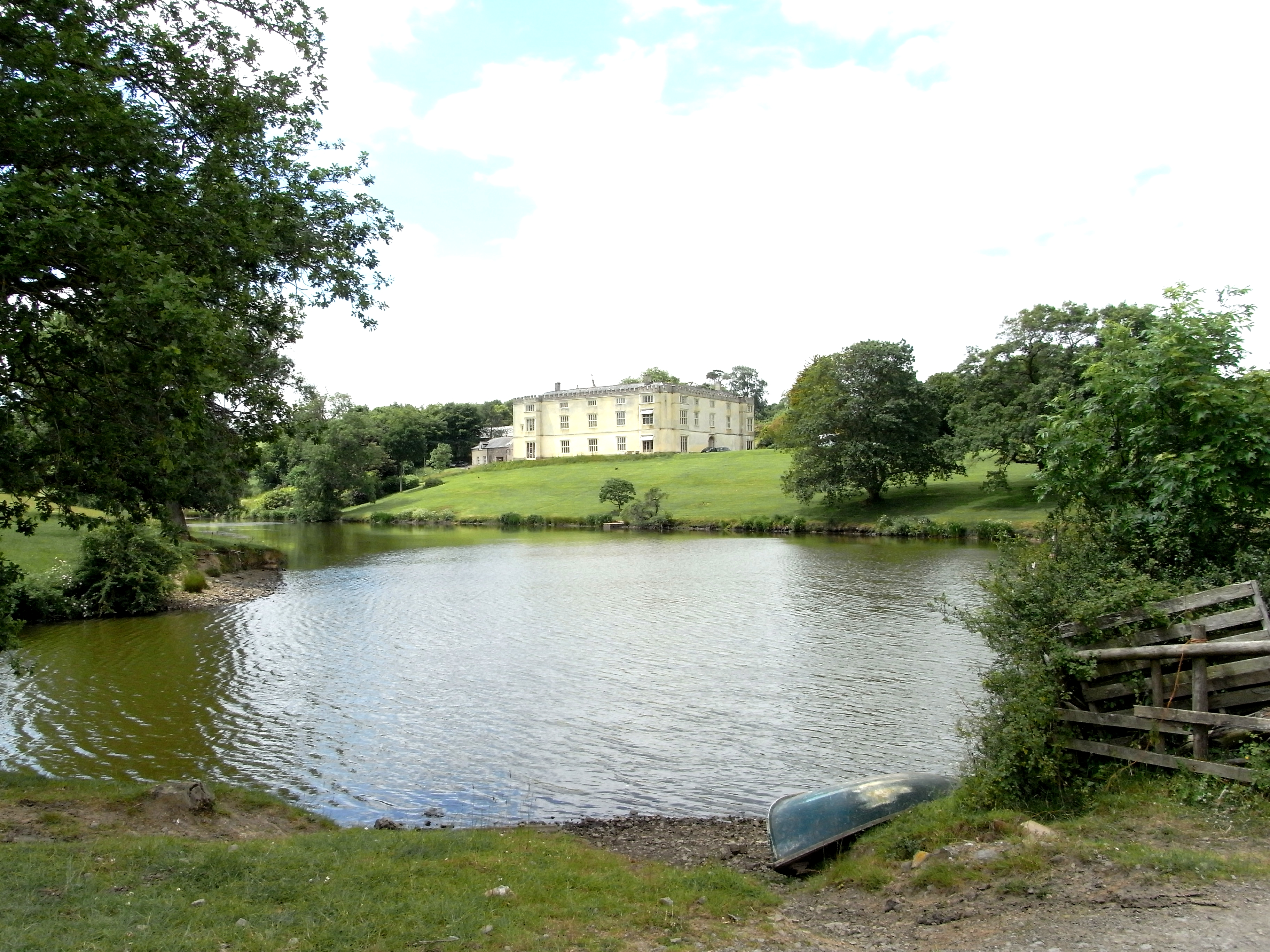 Great Fulford House, in the parish of Dunsford, Devon, view from south-east